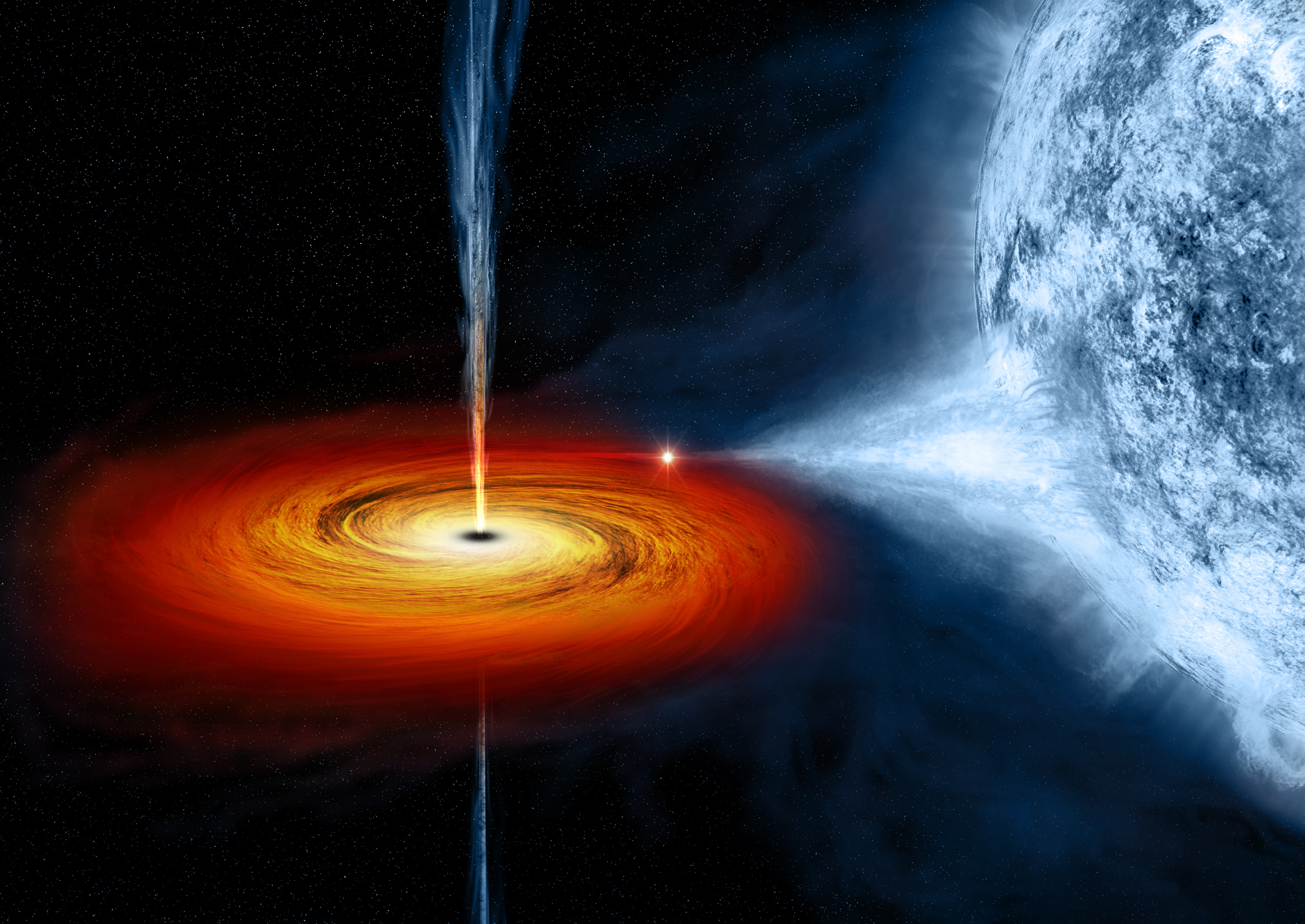 Black hole Cygnus X-1